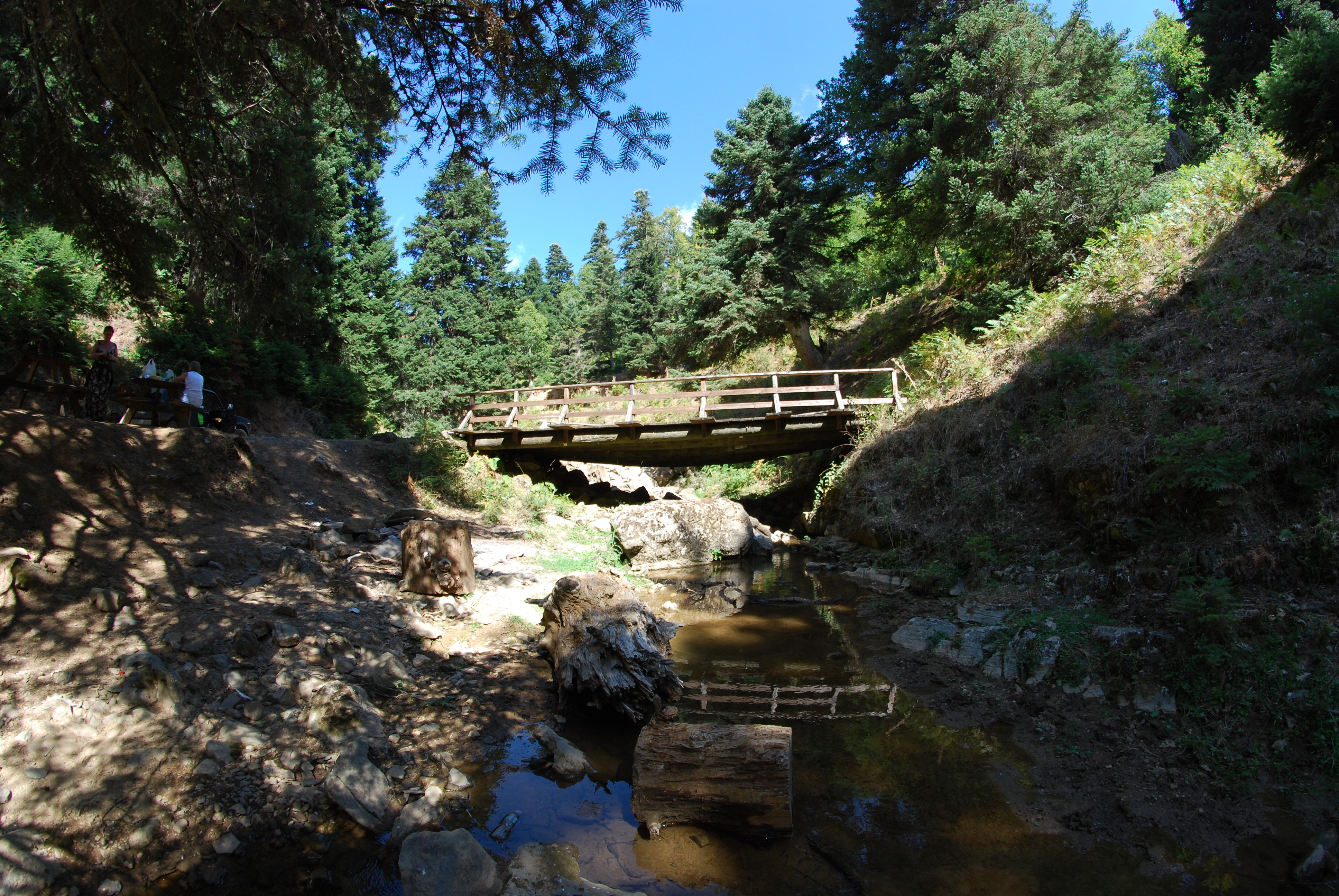 This is a photography of Natura 2000 protected area with ID GR1430006